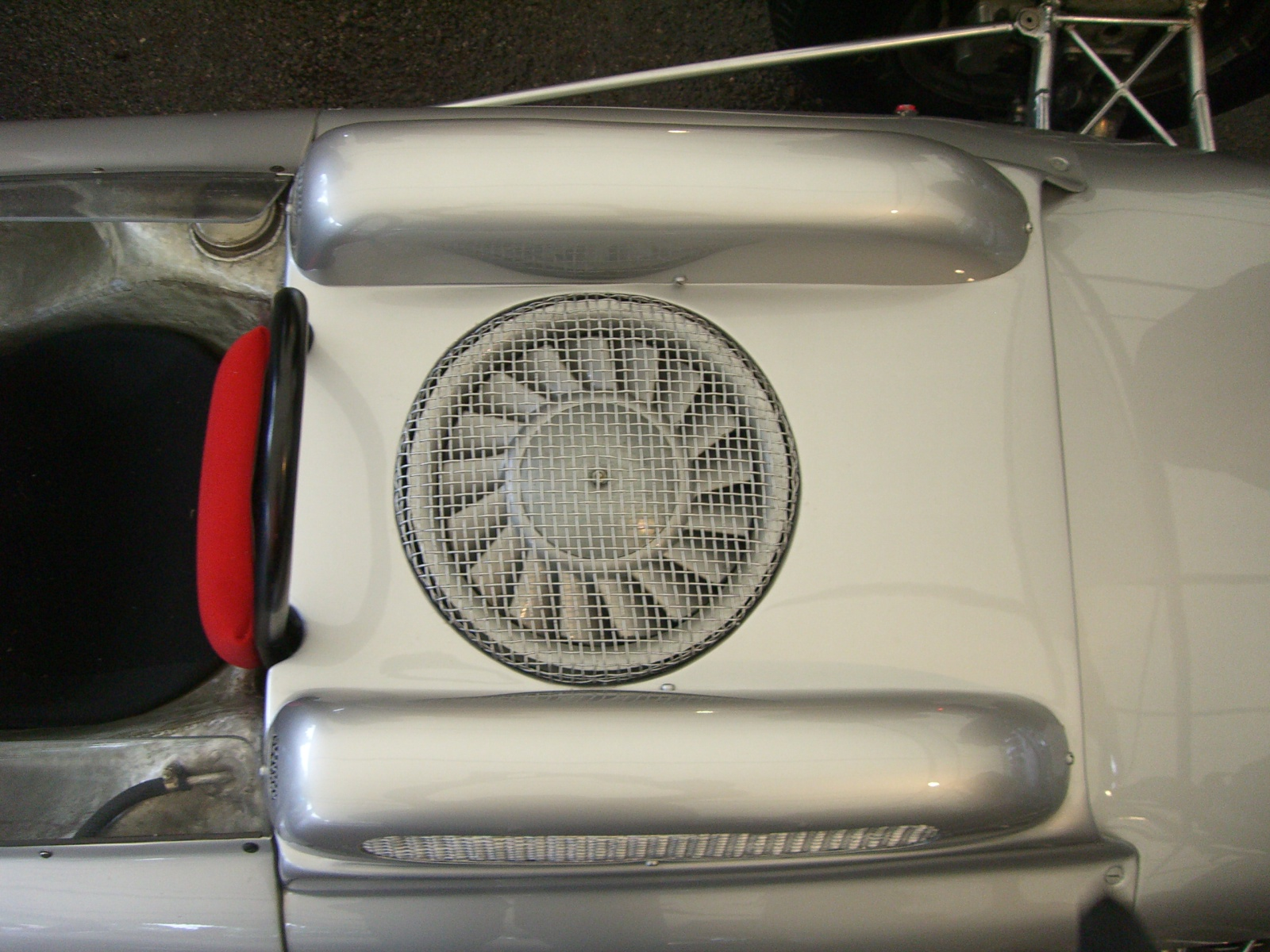 Porsche 804 (1962), cooling-fan